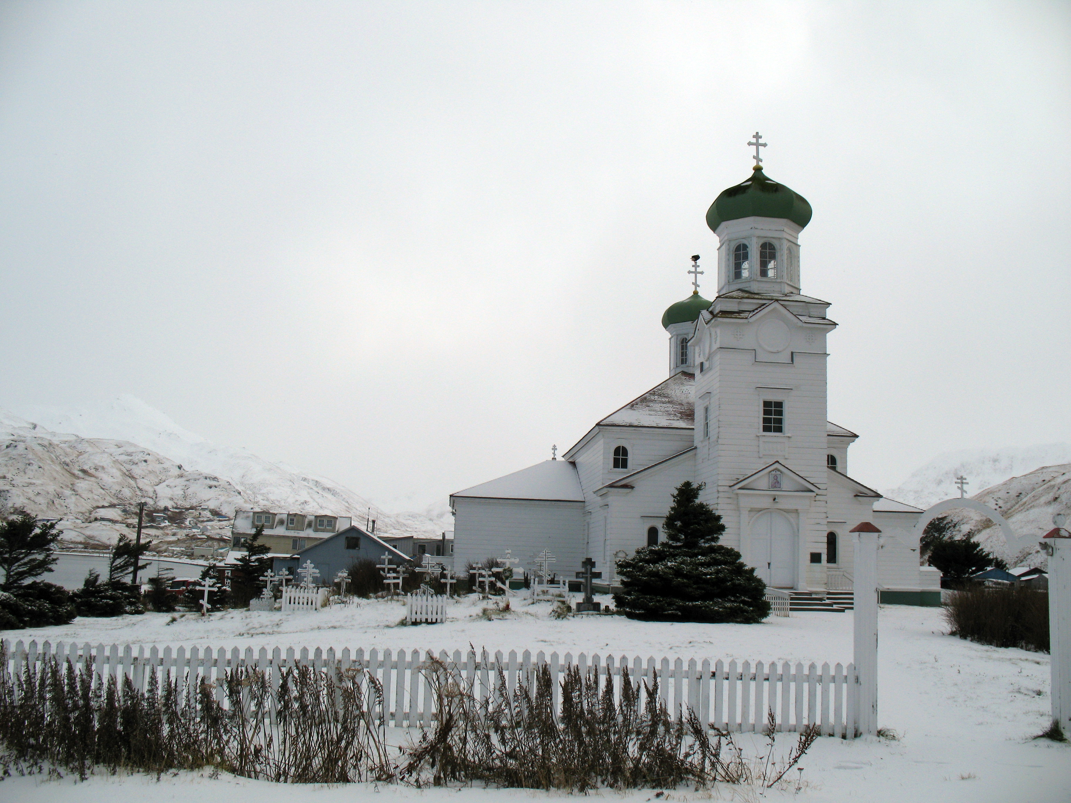 Russian Church